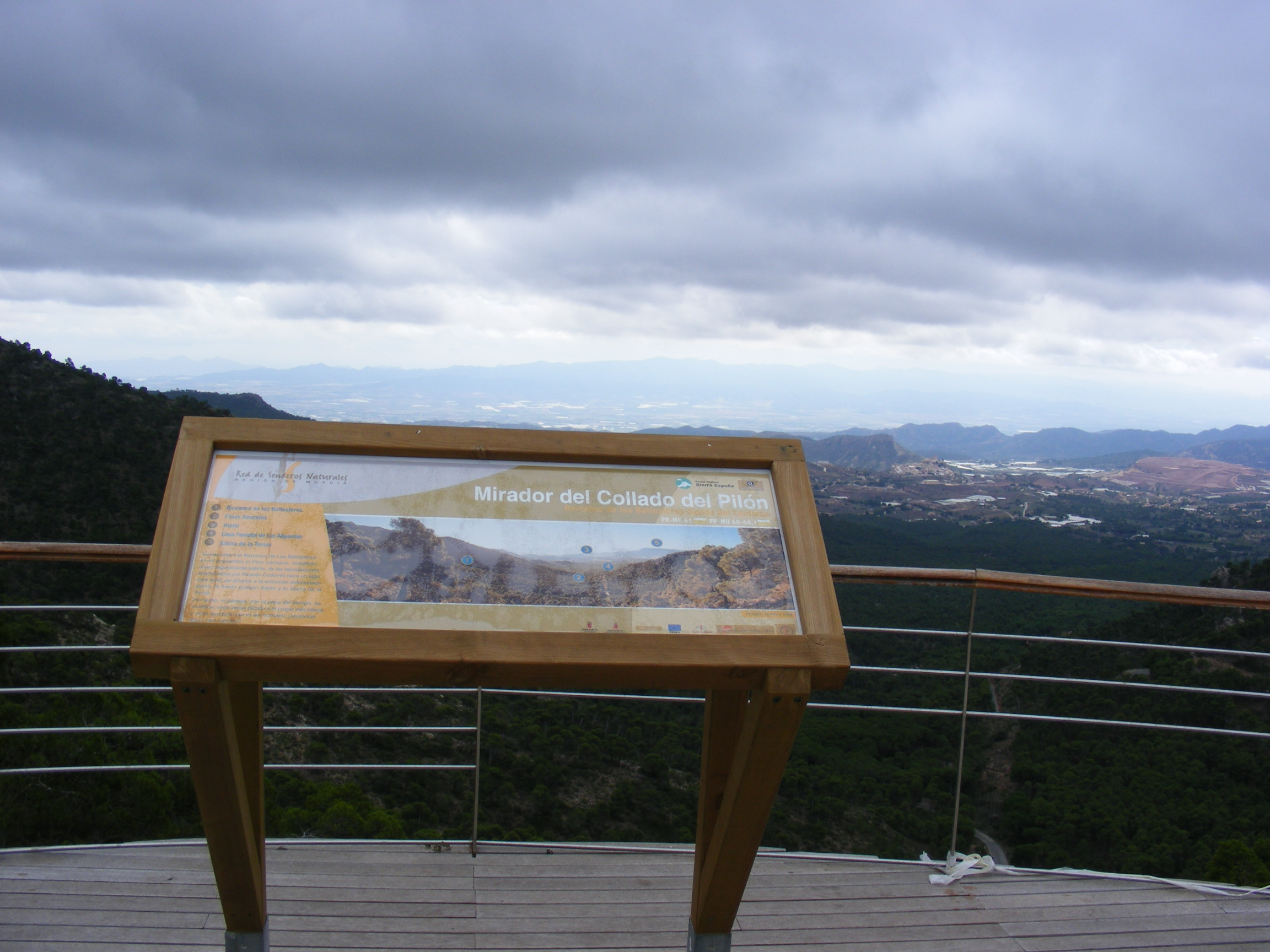 Collado Pilon viewpoint